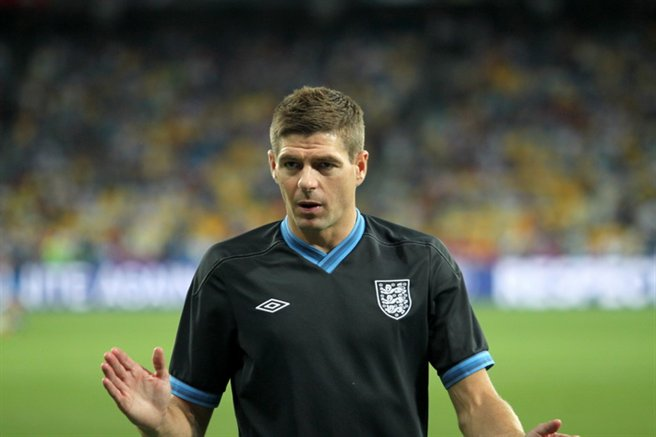 Steven Gerrard before Euro 2012 match against Italy